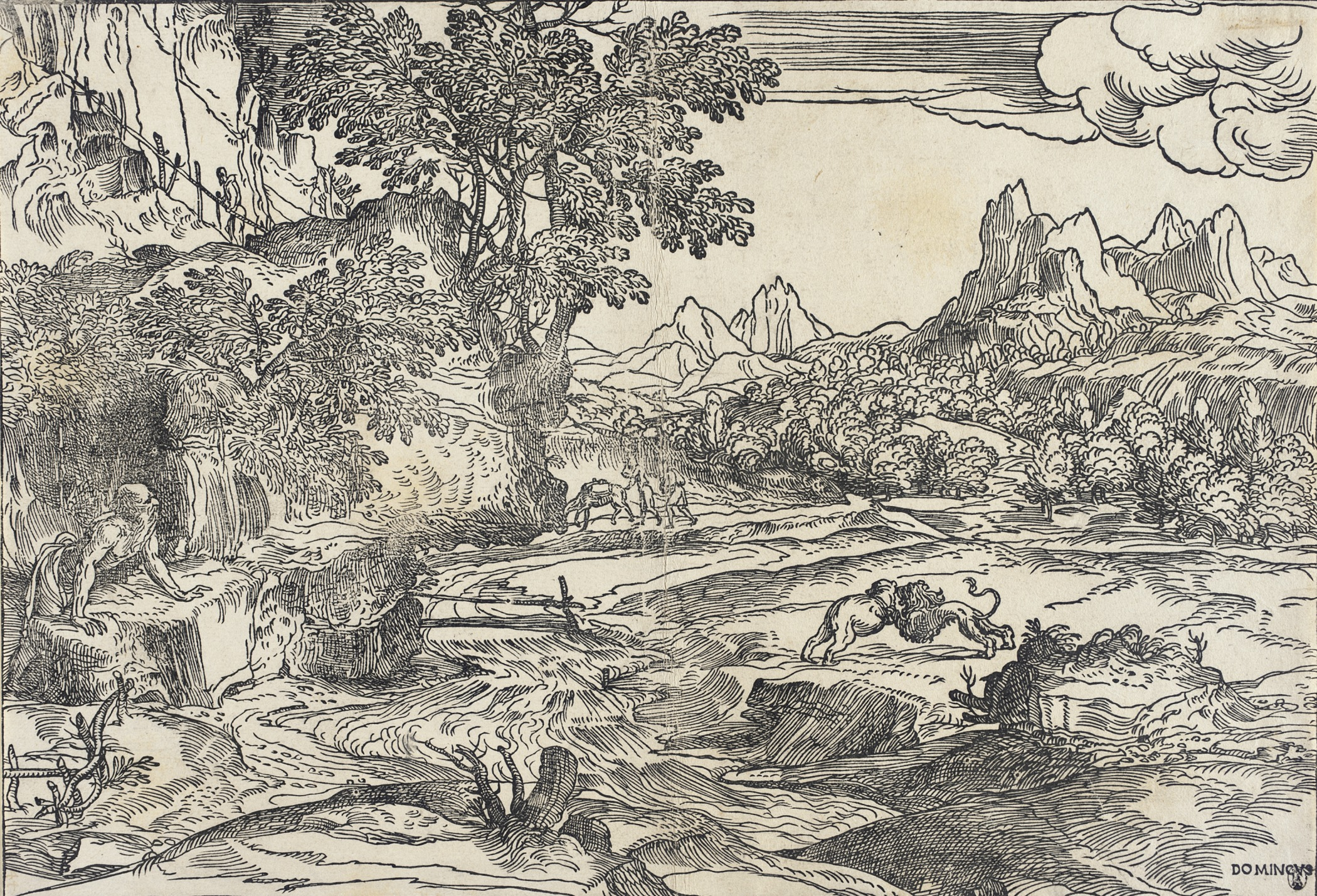 Italy, 1530-1535 Prints; woodcuts Woodcut Los Angeles County Fund (56.71.3) Prints and Drawings